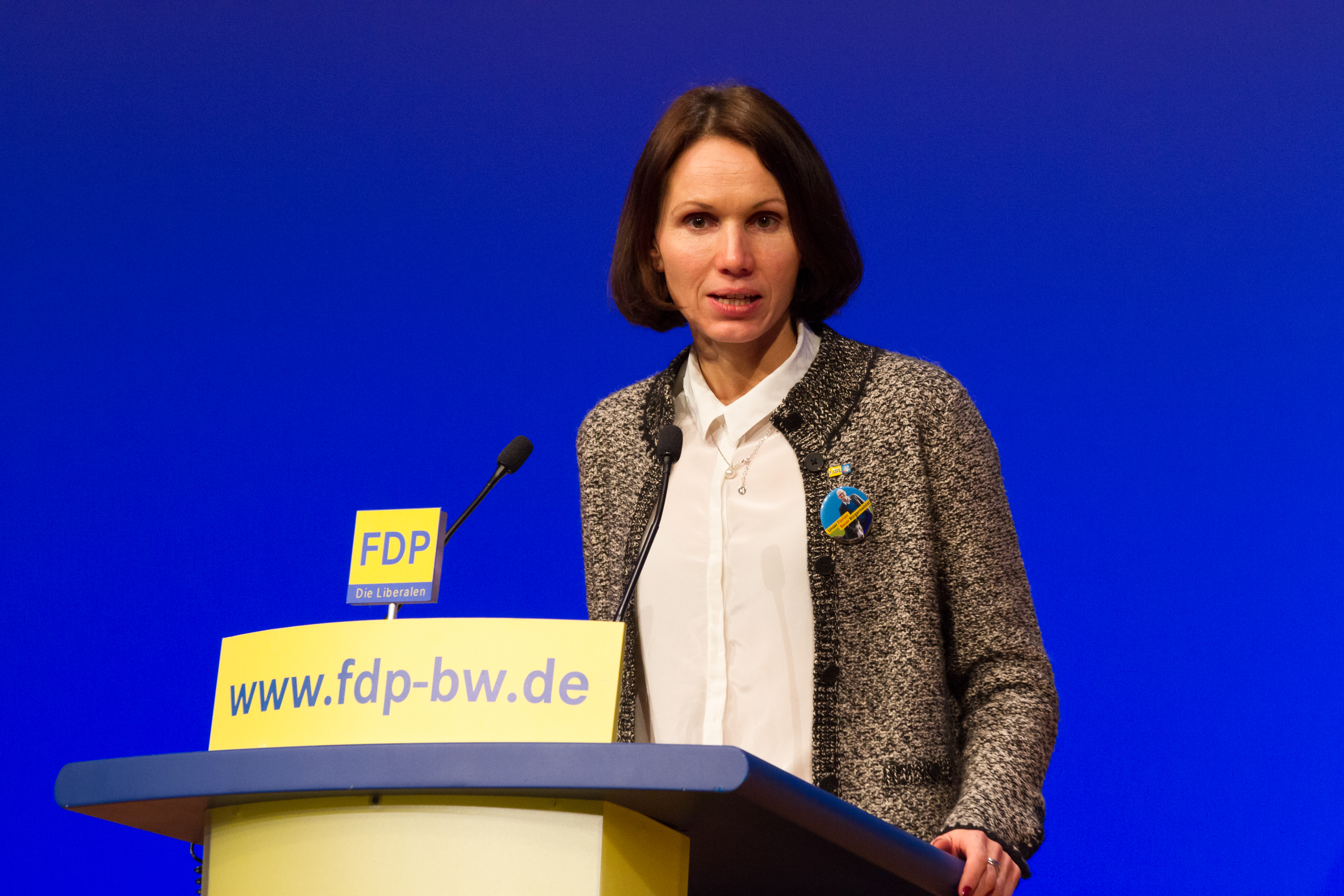 Series: 112th regular party convention of the FDP Baden-Württemberg in Stuttgart on January 5th, 2015Image: Judith Skudelny